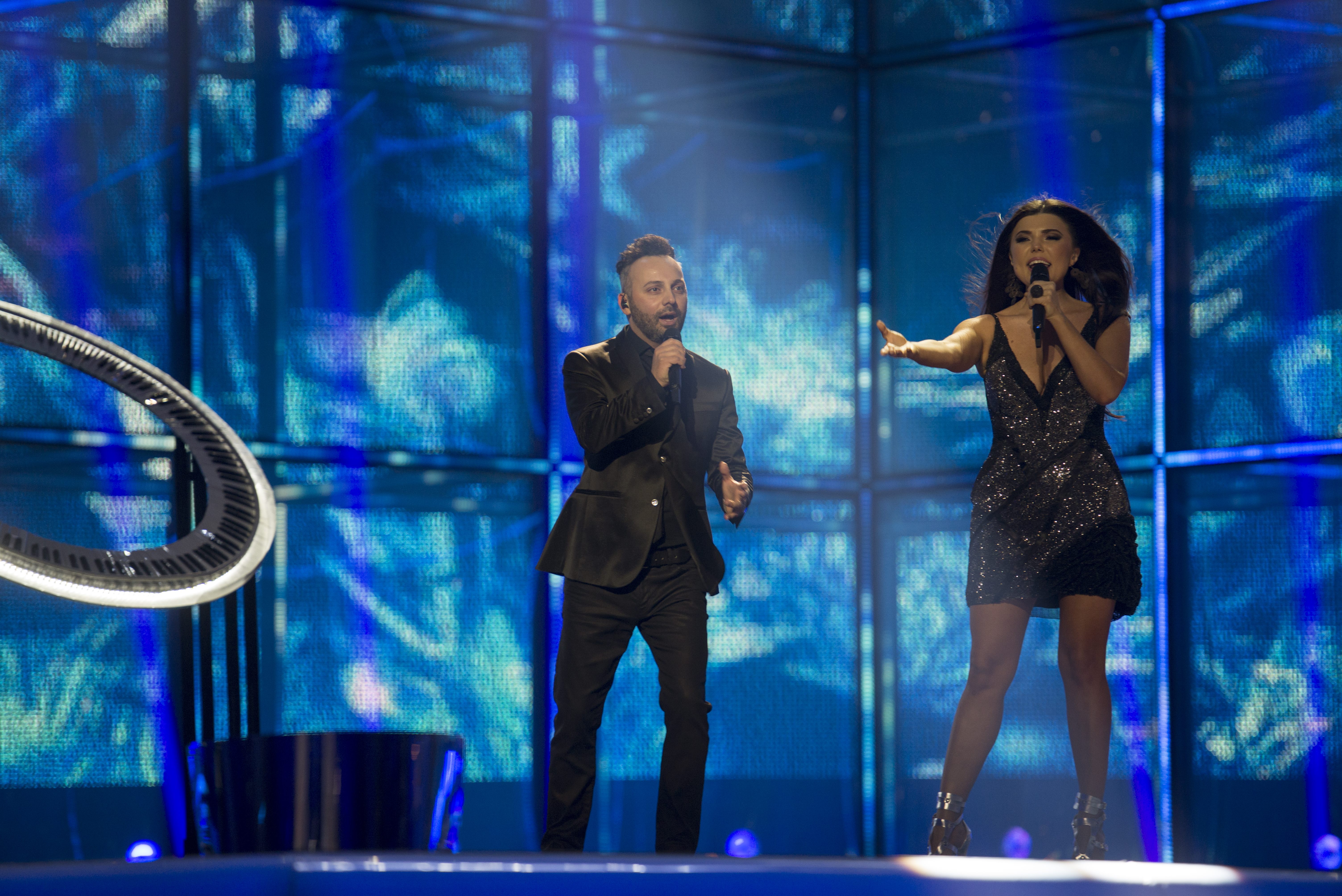 Paula Seling and Ovidiu Cernăuțeanu representing Romania with the song "Miracle" during the first dress rehearsal of the second semi final of the Eurovision Song Contest 2014 Copenhagen. (Help translate this text)